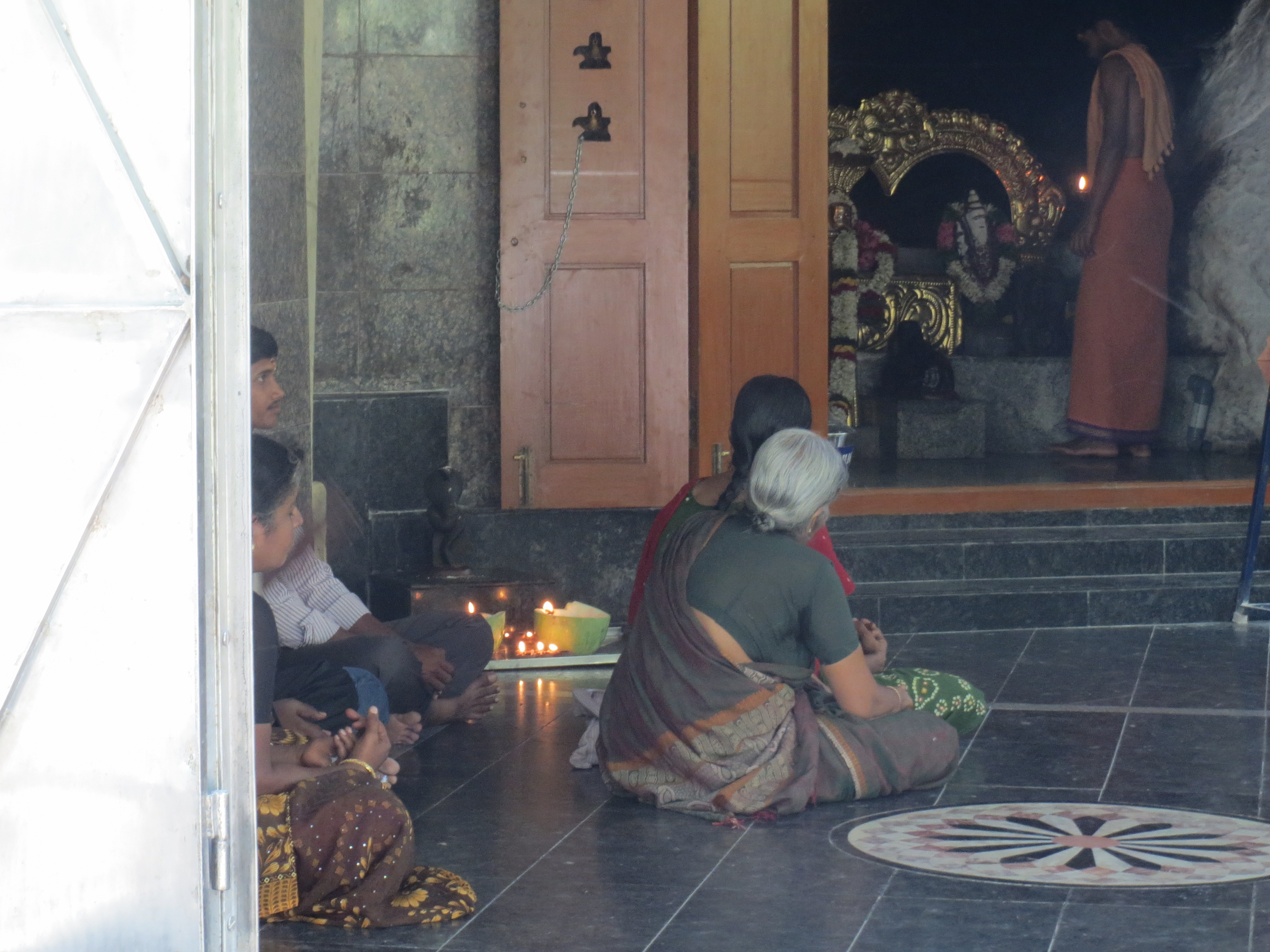 Pambatti siddhar sannidhi at Maruthamalai Temple. Tamil:மருதமலை கோயிலிலுள்ள பாம்பாட்டி சித்தர் சன்னிதி